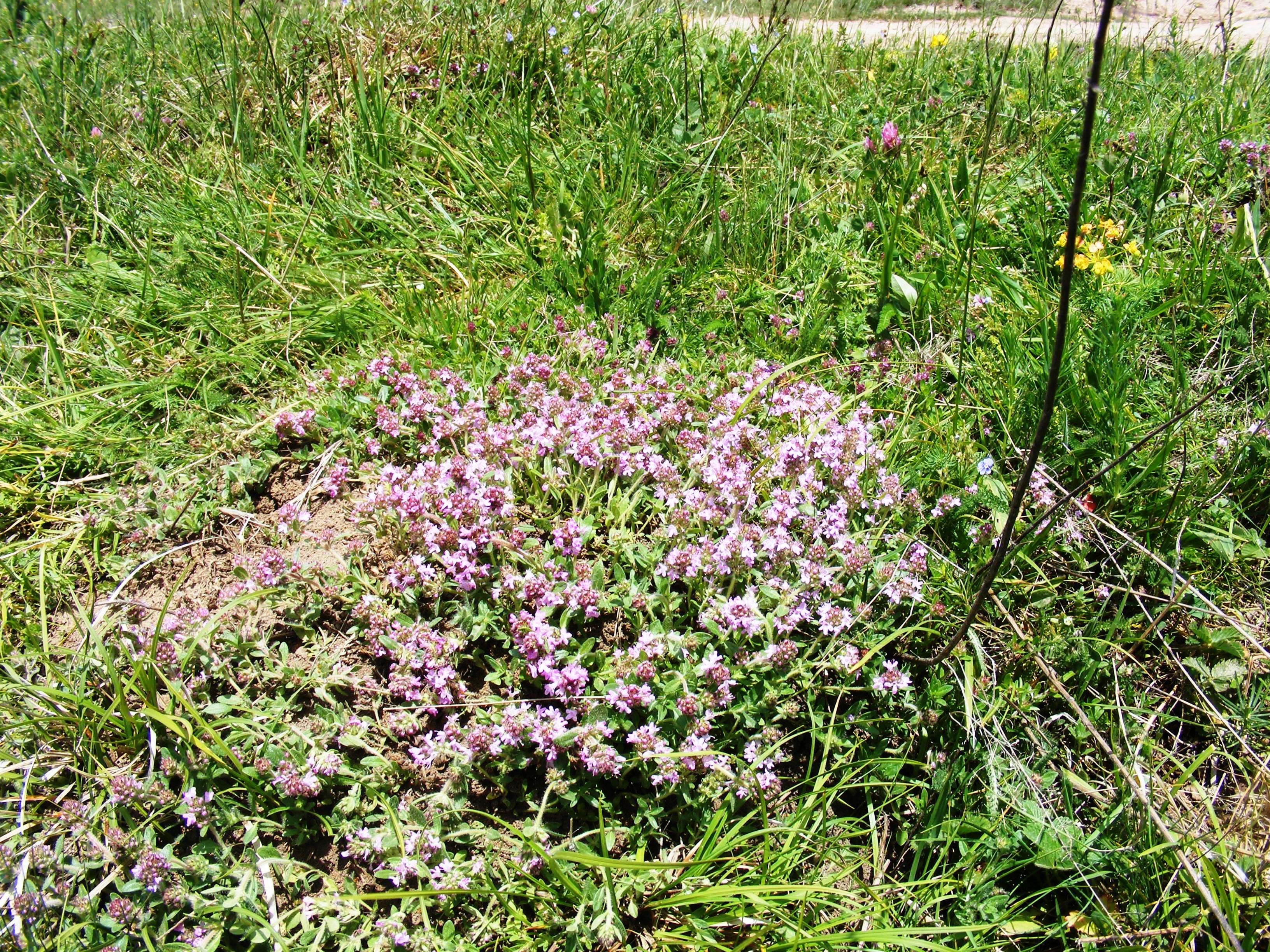 Thymus serpillum